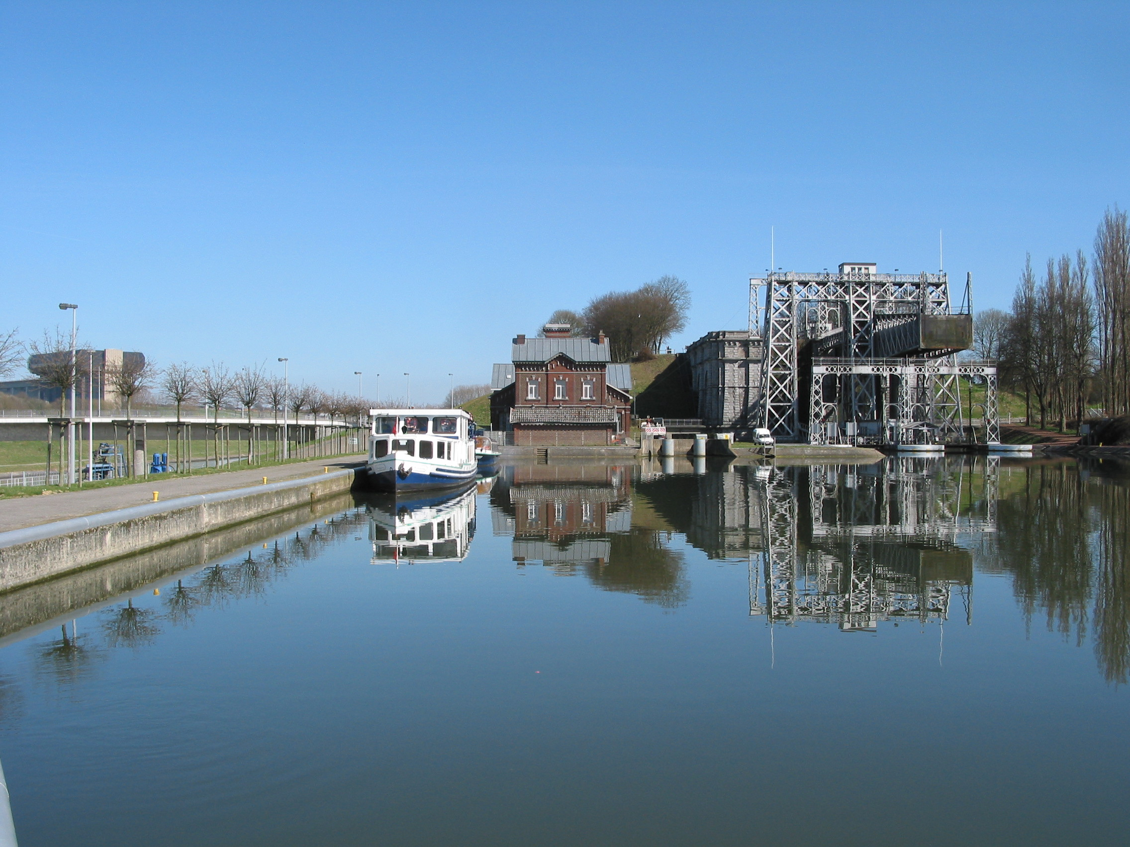 Thieu (Belgium), the old hydraulic ships elevator number 4 and the new ships elevator of "Strépy-Thieu".